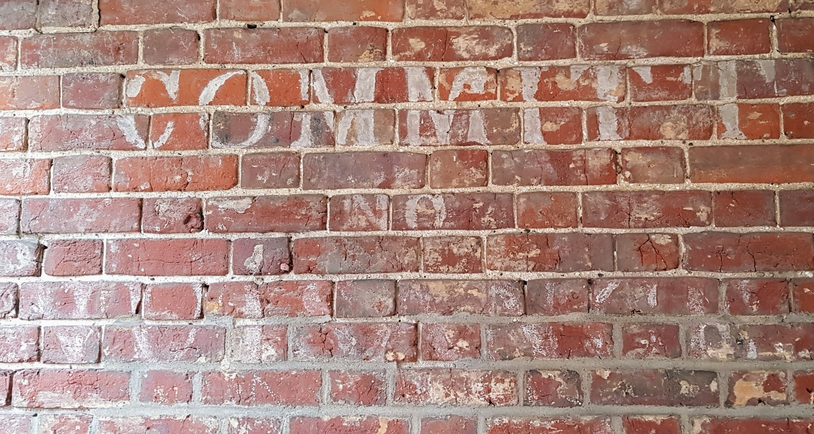 Remains of 19th century sign reading "Committ no nuisance", in an alley off St Benedict's Street, Norwich